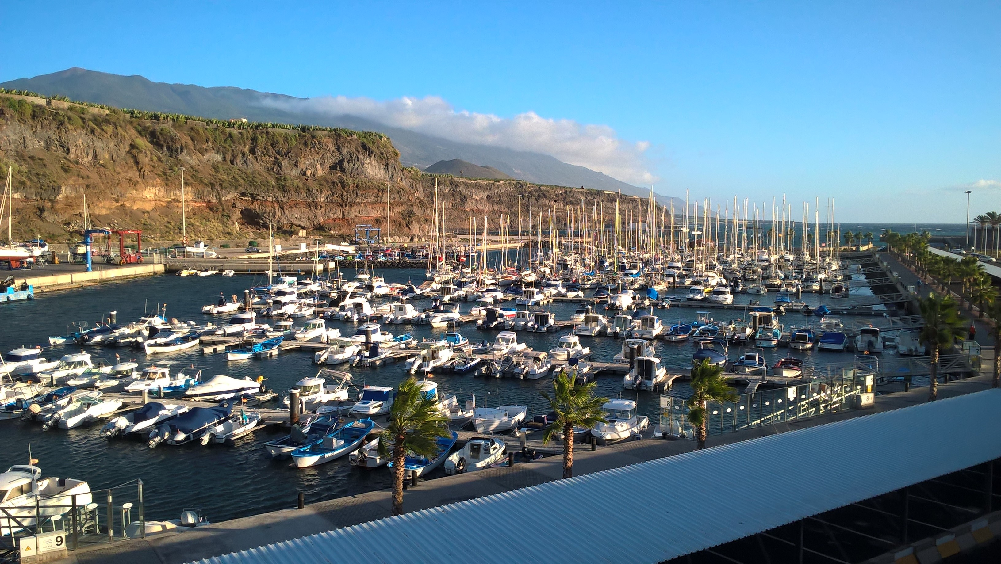 Puerto-Tazacorte